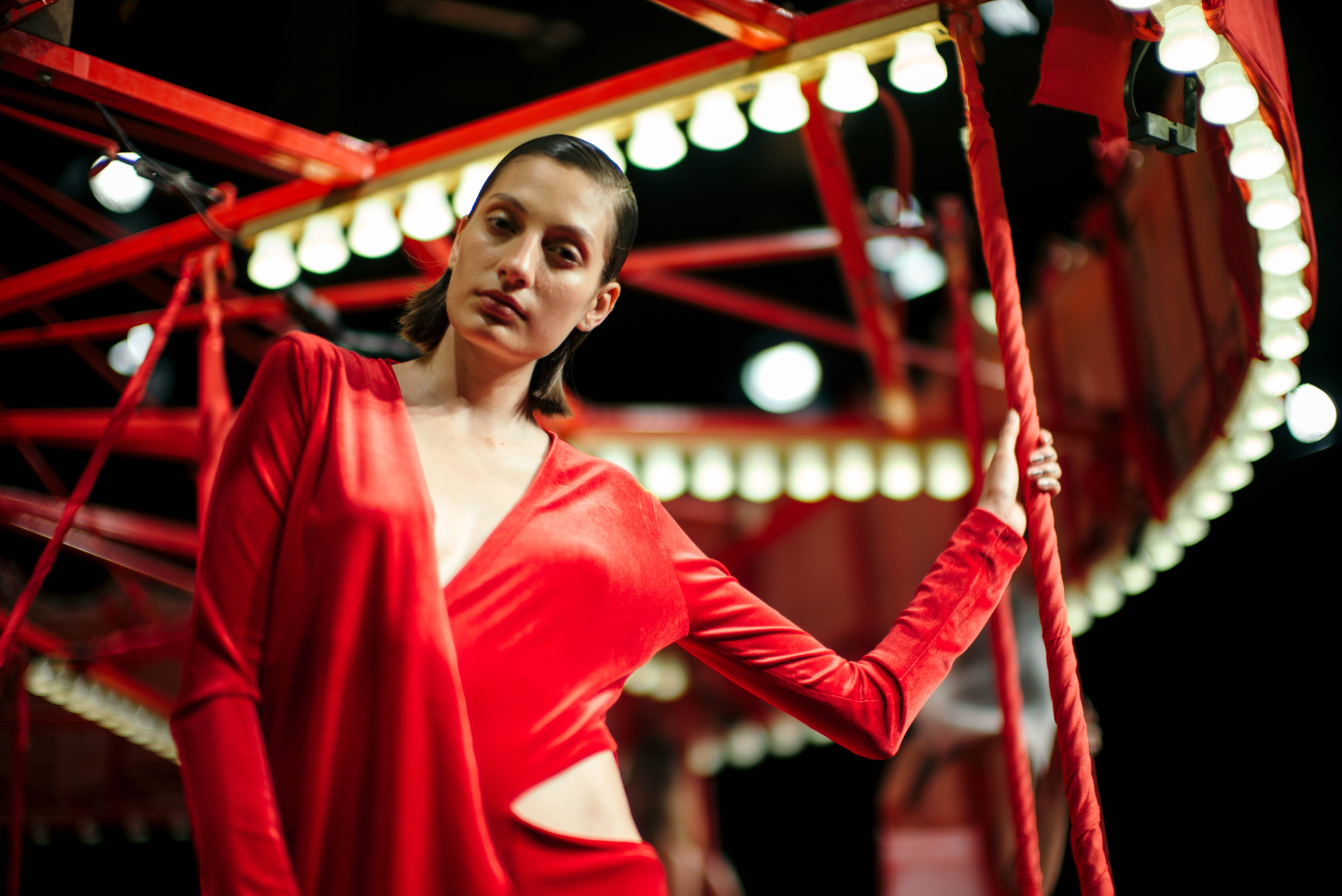 Portrait at Marta Jakubowski Presentation LFW, SS17 Presentation